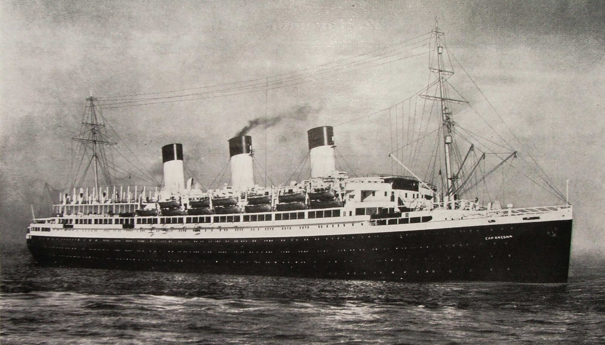 Pic "Cap Arcona"